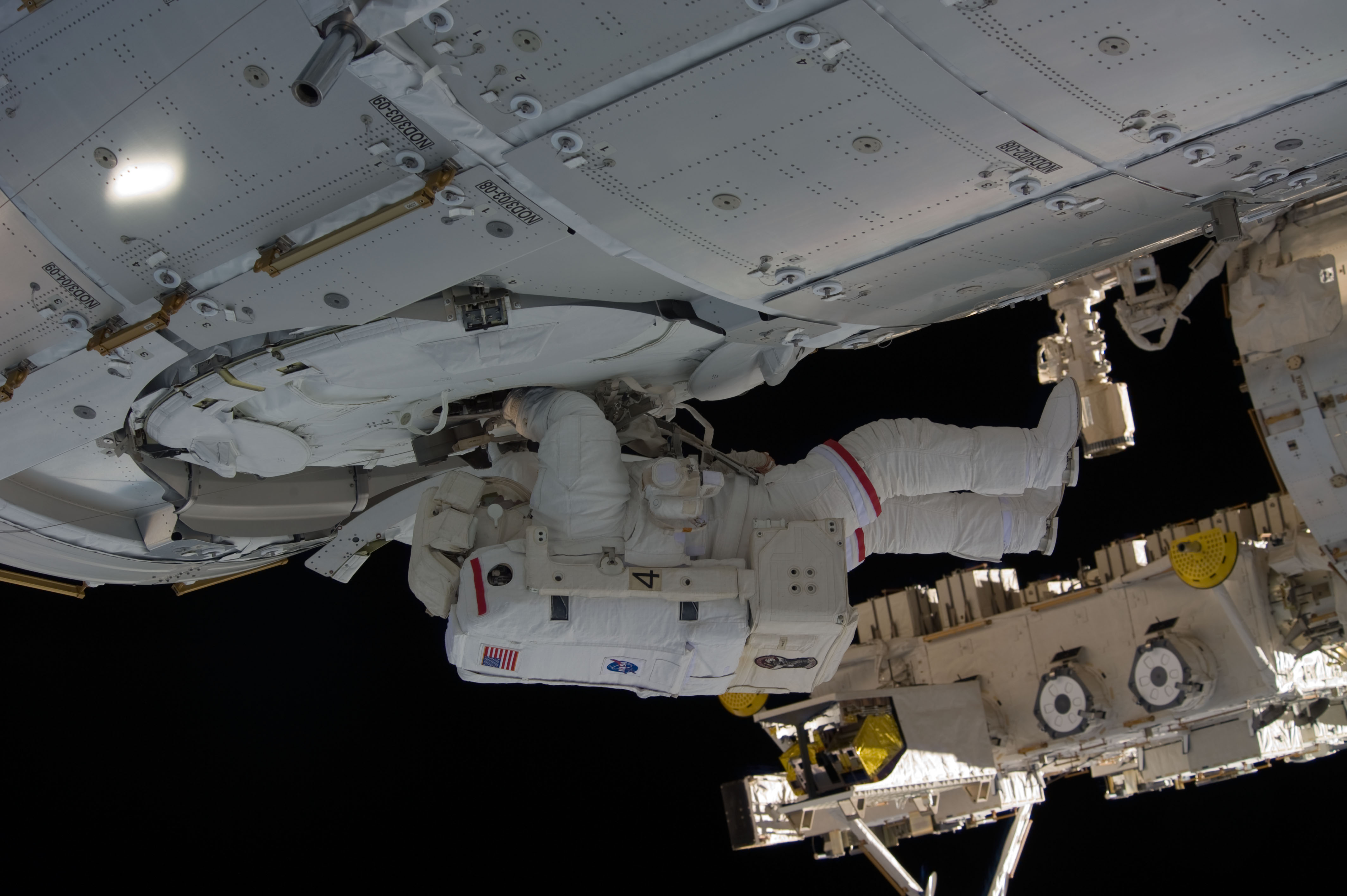 NASA astronaut Robert Behnken, STS-130 mission specialist, participates in the mission's second session of extravehicular activity (EVA) as construction and maintenance continue on the International Space Station. During the five-hour, 54-minute spacewalk, Behnken and astronaut Nicholas Patrick (out of frame), mission specialist, connected two ammonia coolant loops, installed thermal covers around the ammonia hoses, outfitted the Earth-facing port on the Tranquility node for the relocation of its Cupola, and installed handrails and a vent valve on the new module.